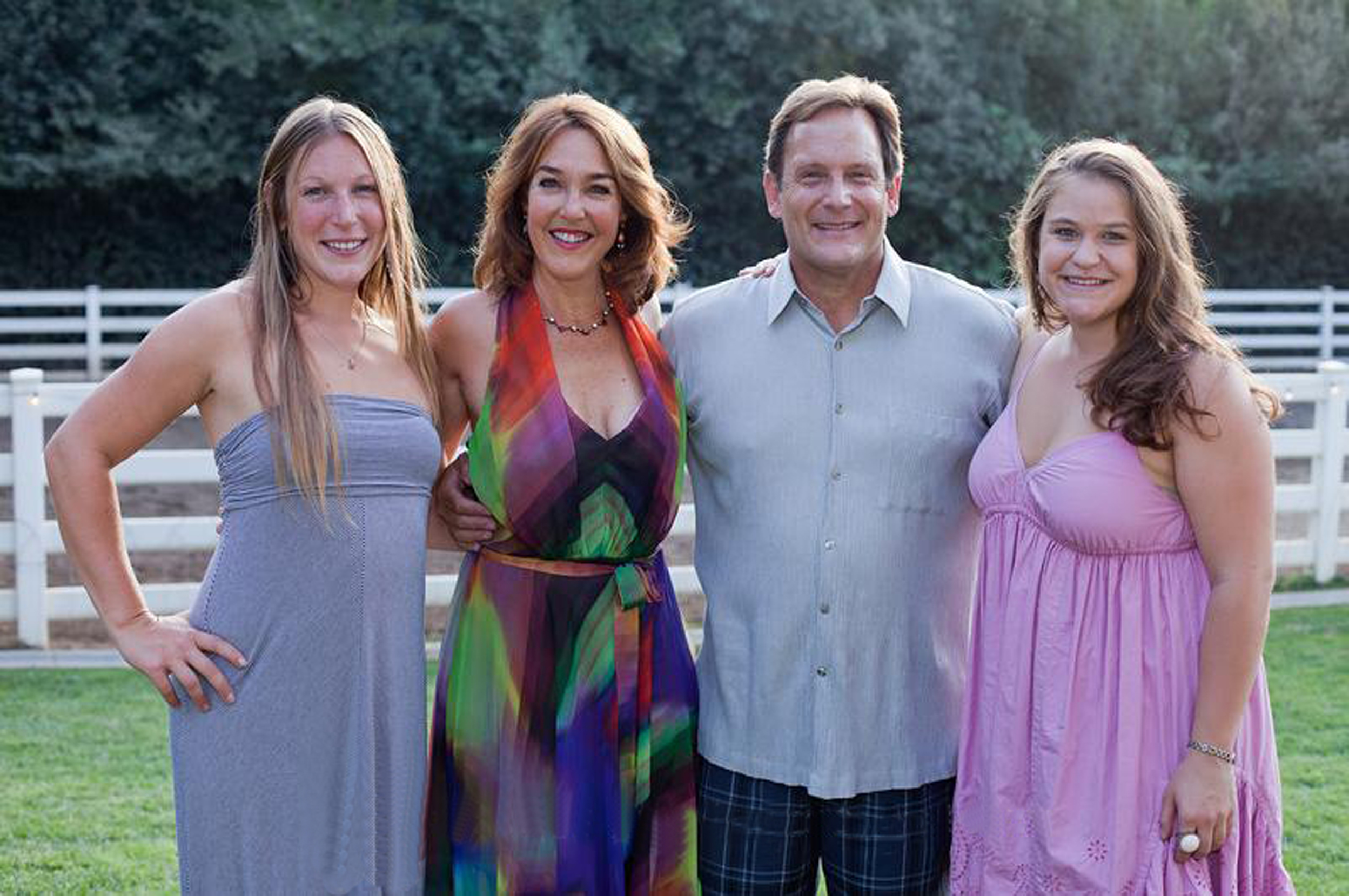 The Spoto Family. From left, Arianna, Christy, Stuart, and Alexi.